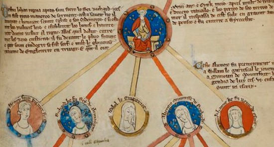 John of England and his children